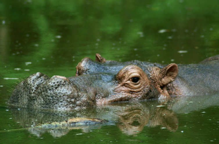 Hippopotamus